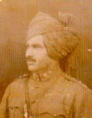 Bahador Aman Singh Judantal